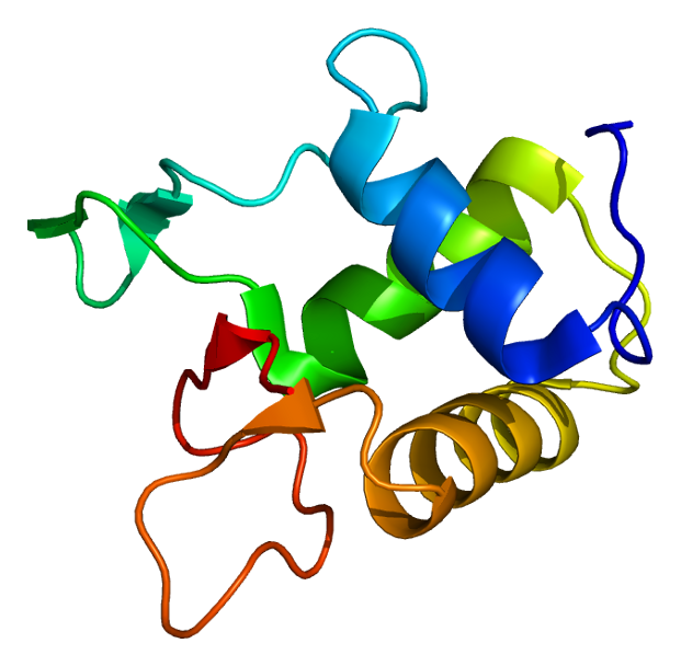 Structure of the DVL1 protein. Based on PyMOL rendering of PDB 1fsh.